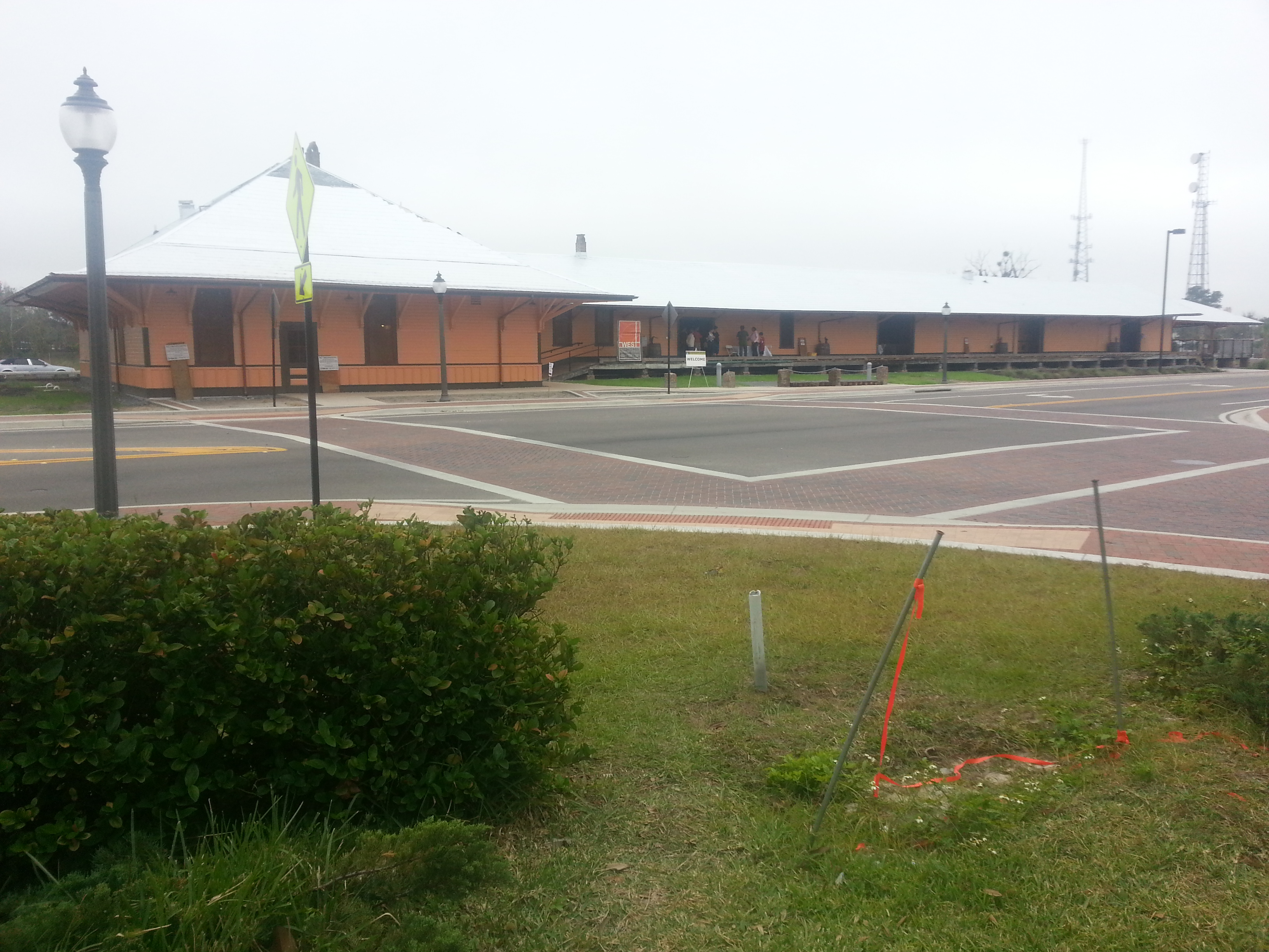 Seaboard Air Line Railroad Depot in Gainesville, Florida, painted in 1910 color scheme.